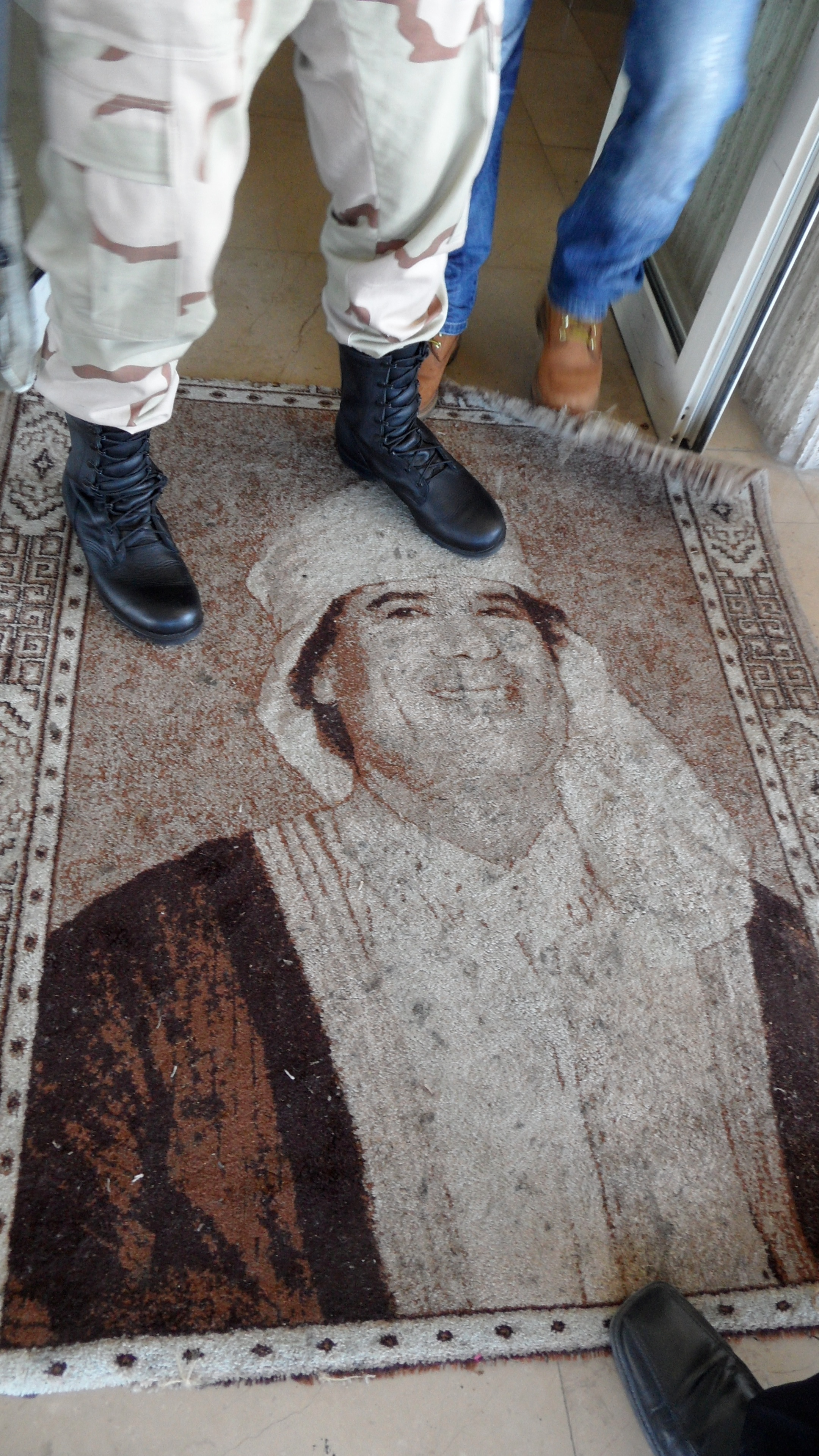 Photo taken by Jill Dougherty